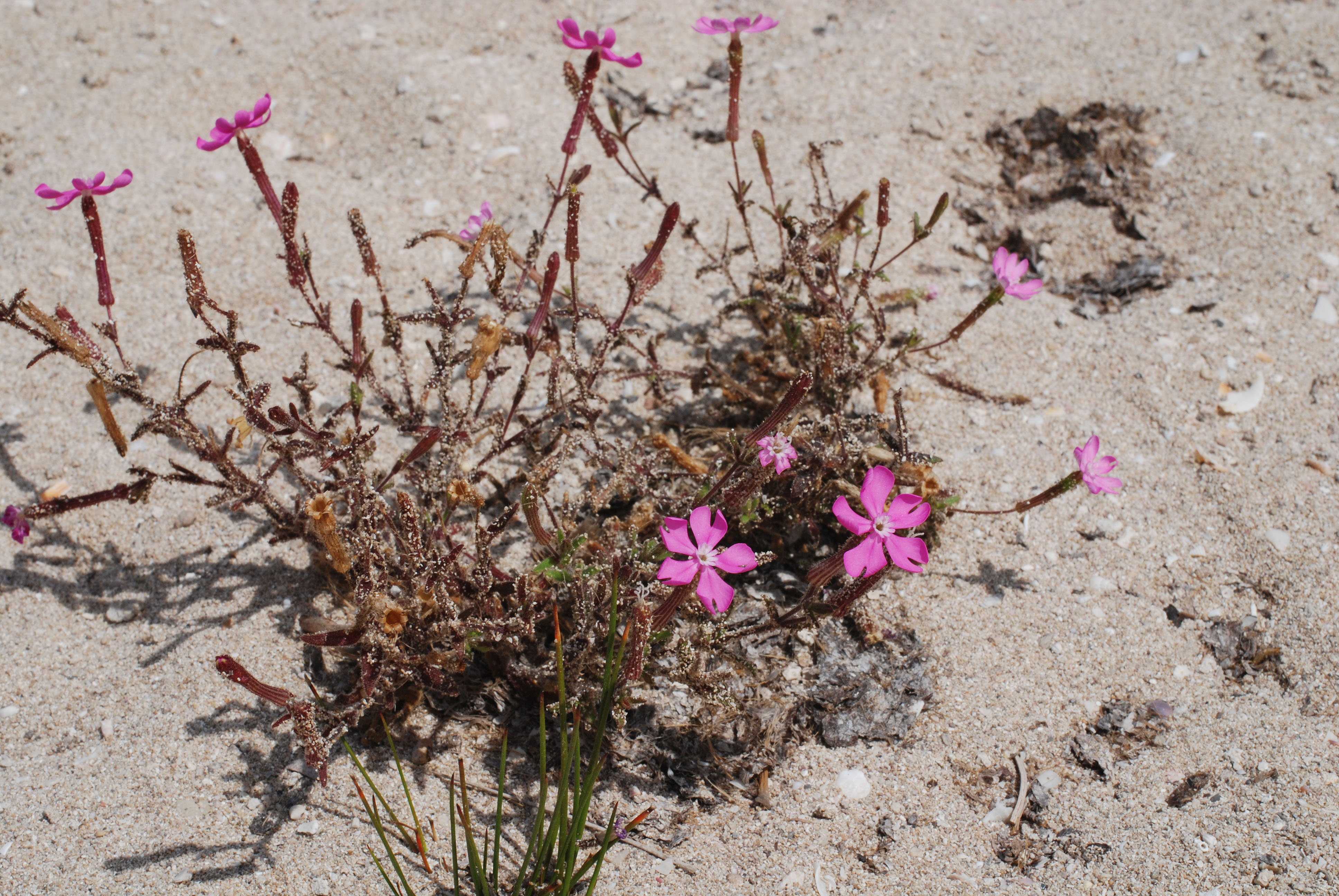 Silene cambessedesii, Reserva Natural de Ses Salinas, Ibiza